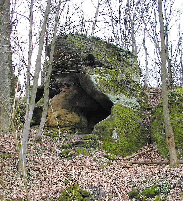 Lichtenstein castle near Pfarrweisach (Landkreis Haßberge, Lower Franconia, Germany). Part of the "sandstone labyrinth" near the castle